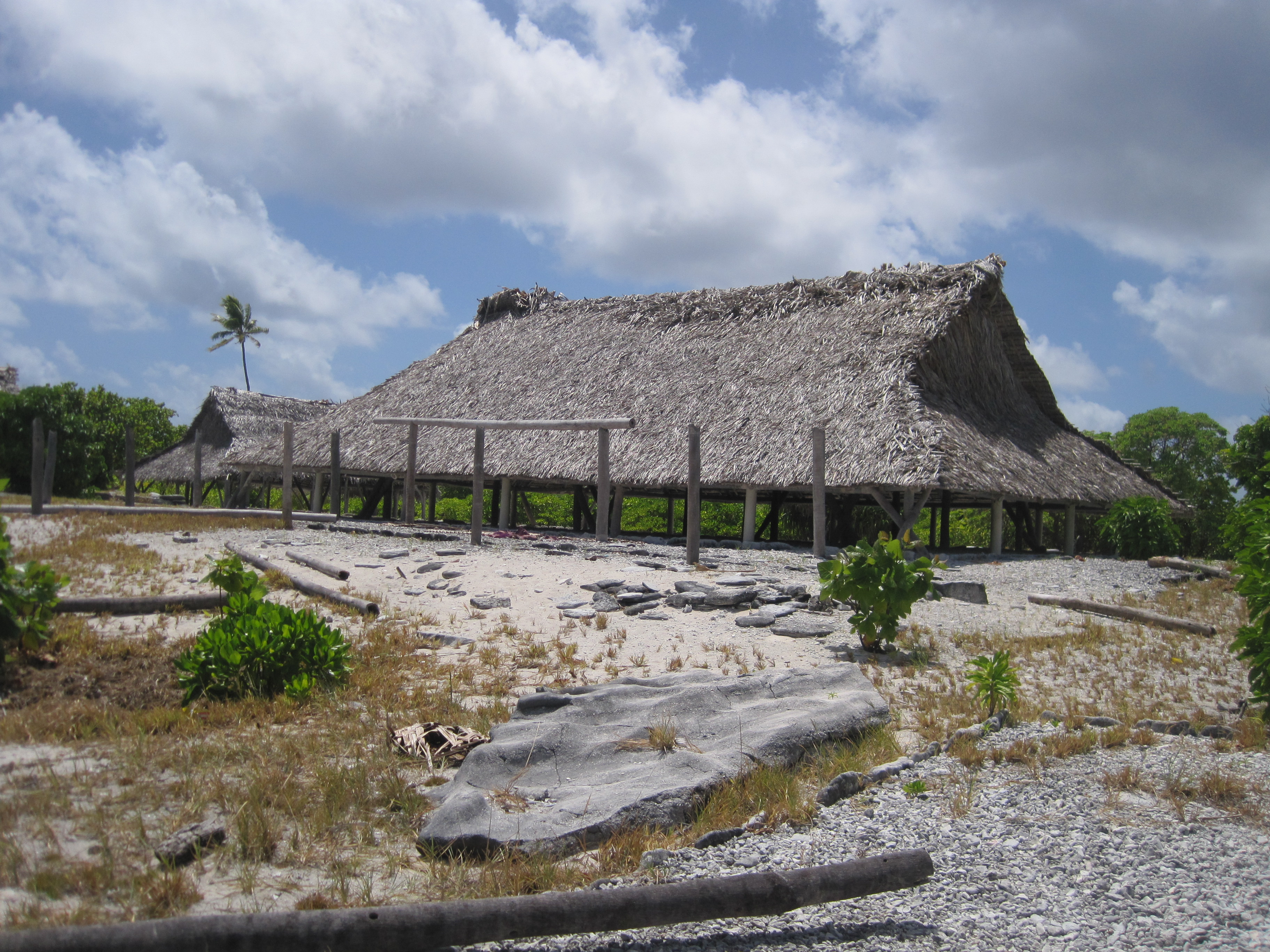 Maneaba in Babaroroa, North of Arorae island.